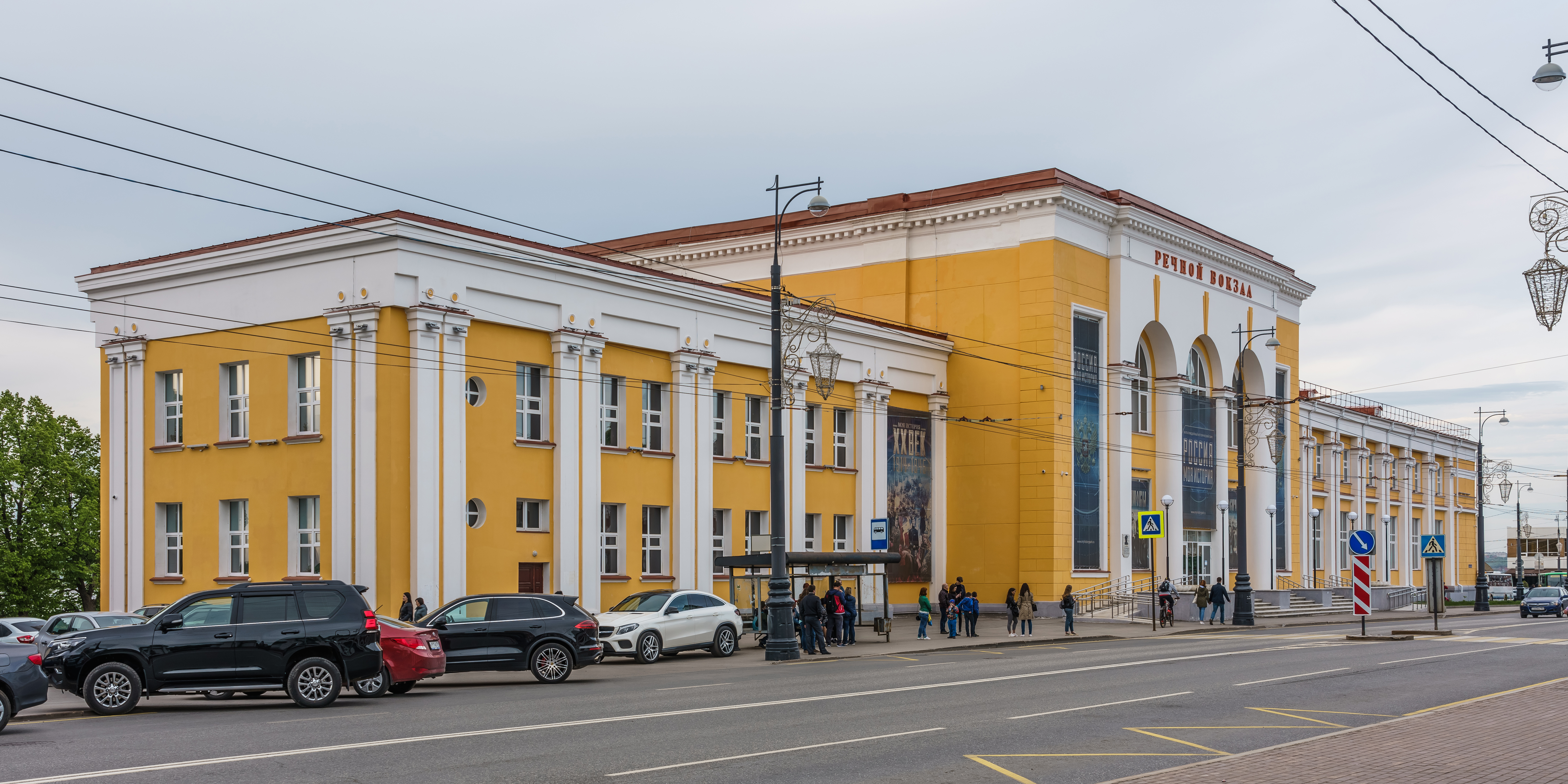 Former River station building in Perm, Russia